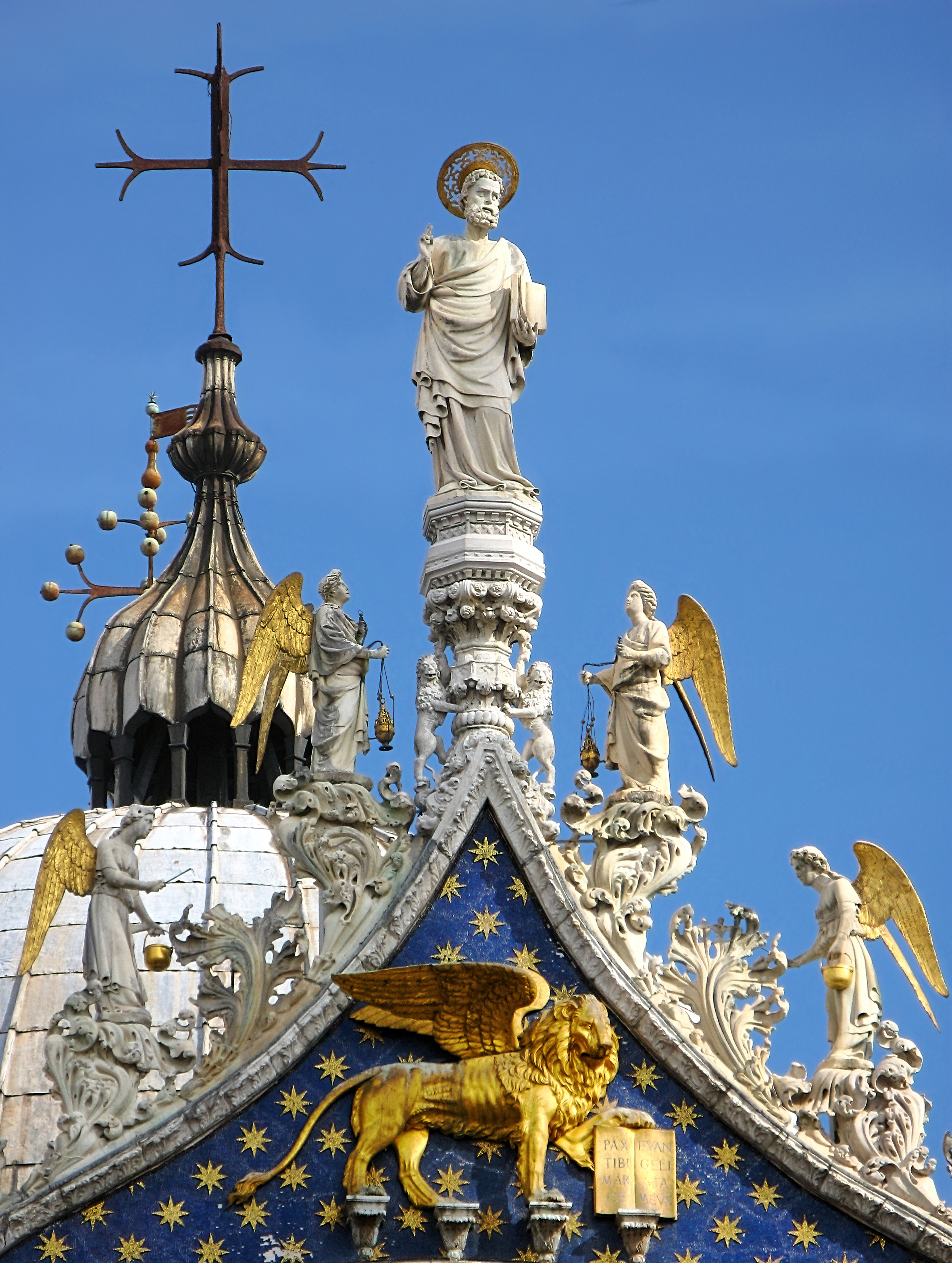 Detail of the rooftop of San Marco cathedral in Venice, Italy. Venice patron apostle St. Mark with angels. Underneath is winged lion, mascot of Venice.